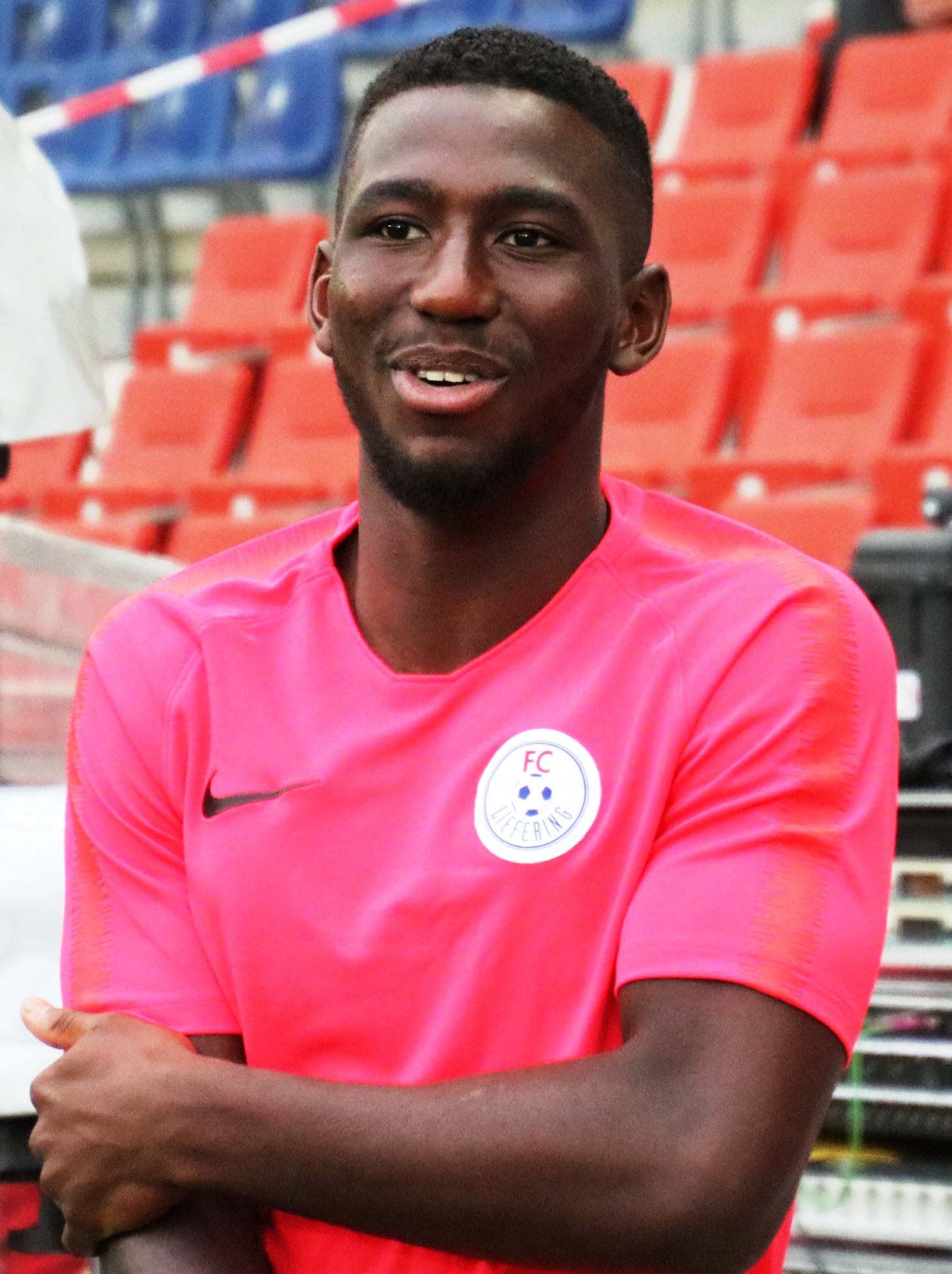 Austria 2nd league league match 3rd round